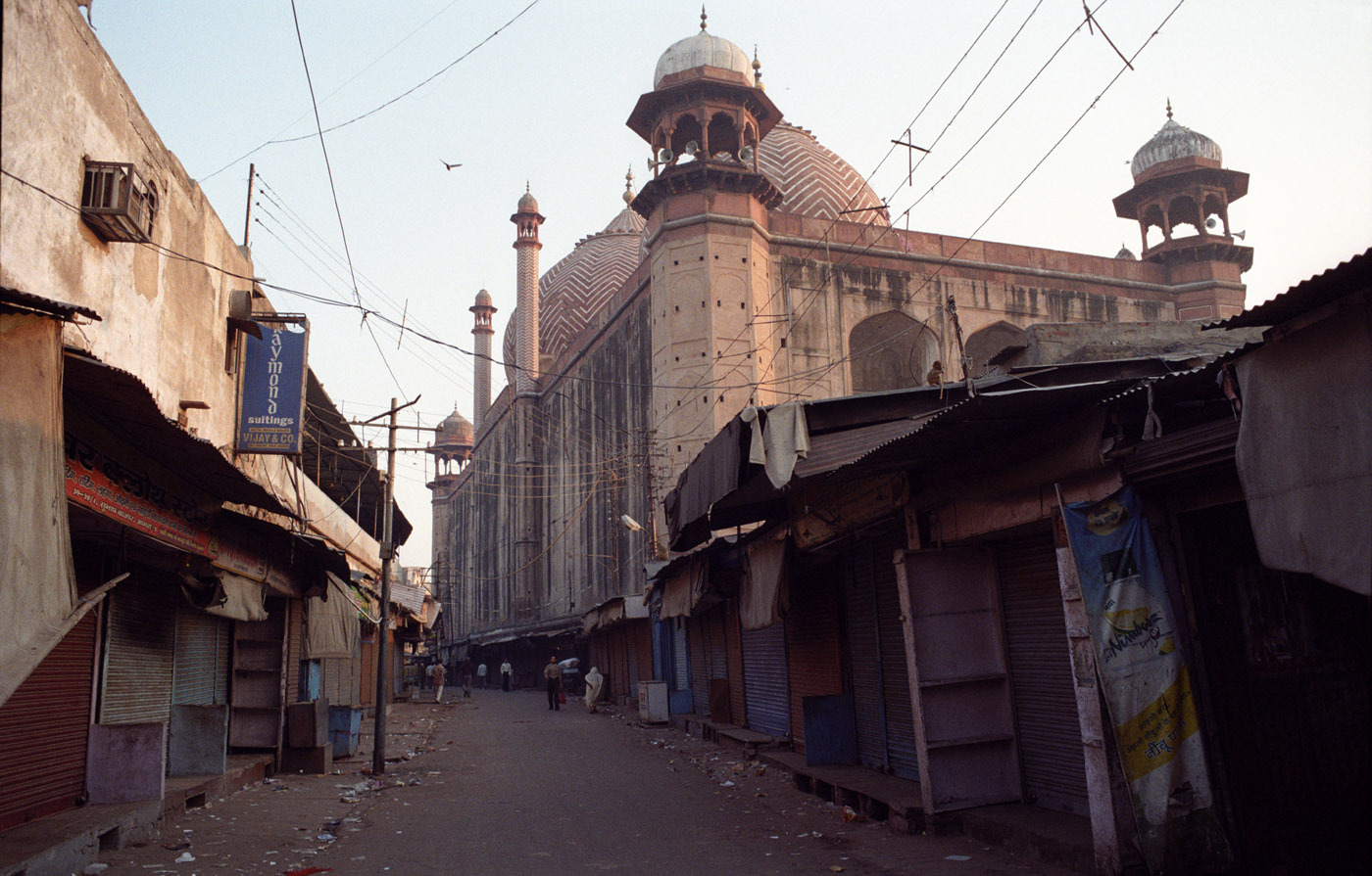 Streets of Agra (Jama Masjid)